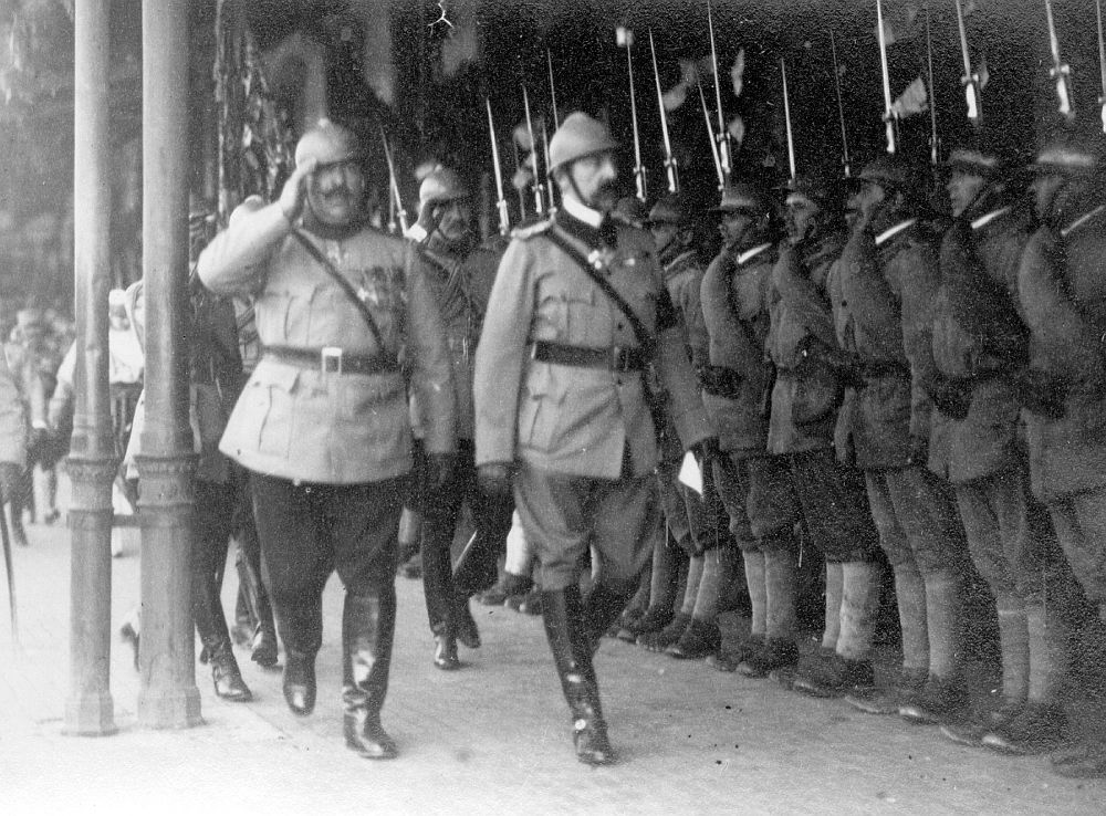 General Traian Moșoiu and King Ferdinand saluting the Royal Guards in the train station of Careii Mari.